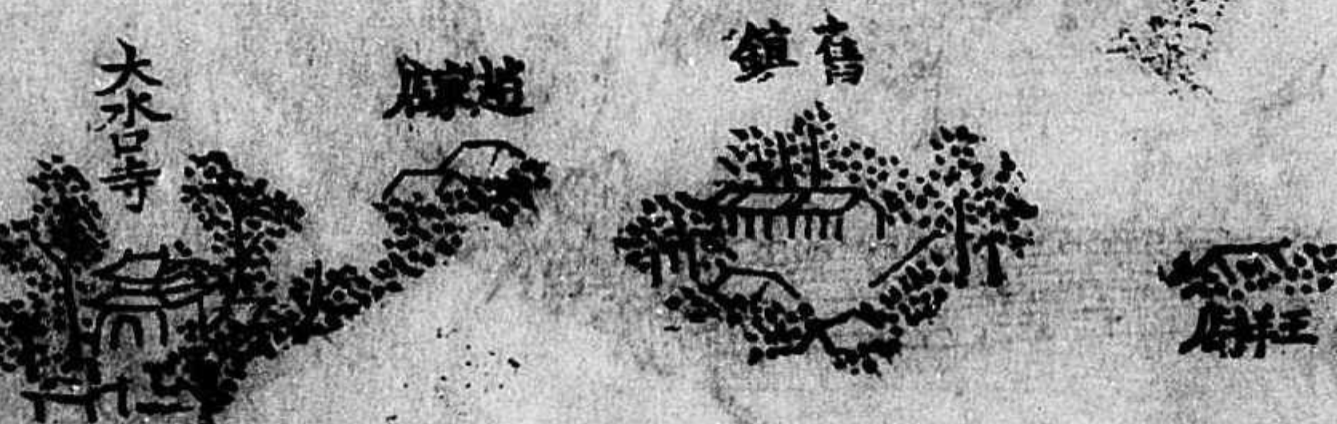 Putai County Qingtian district